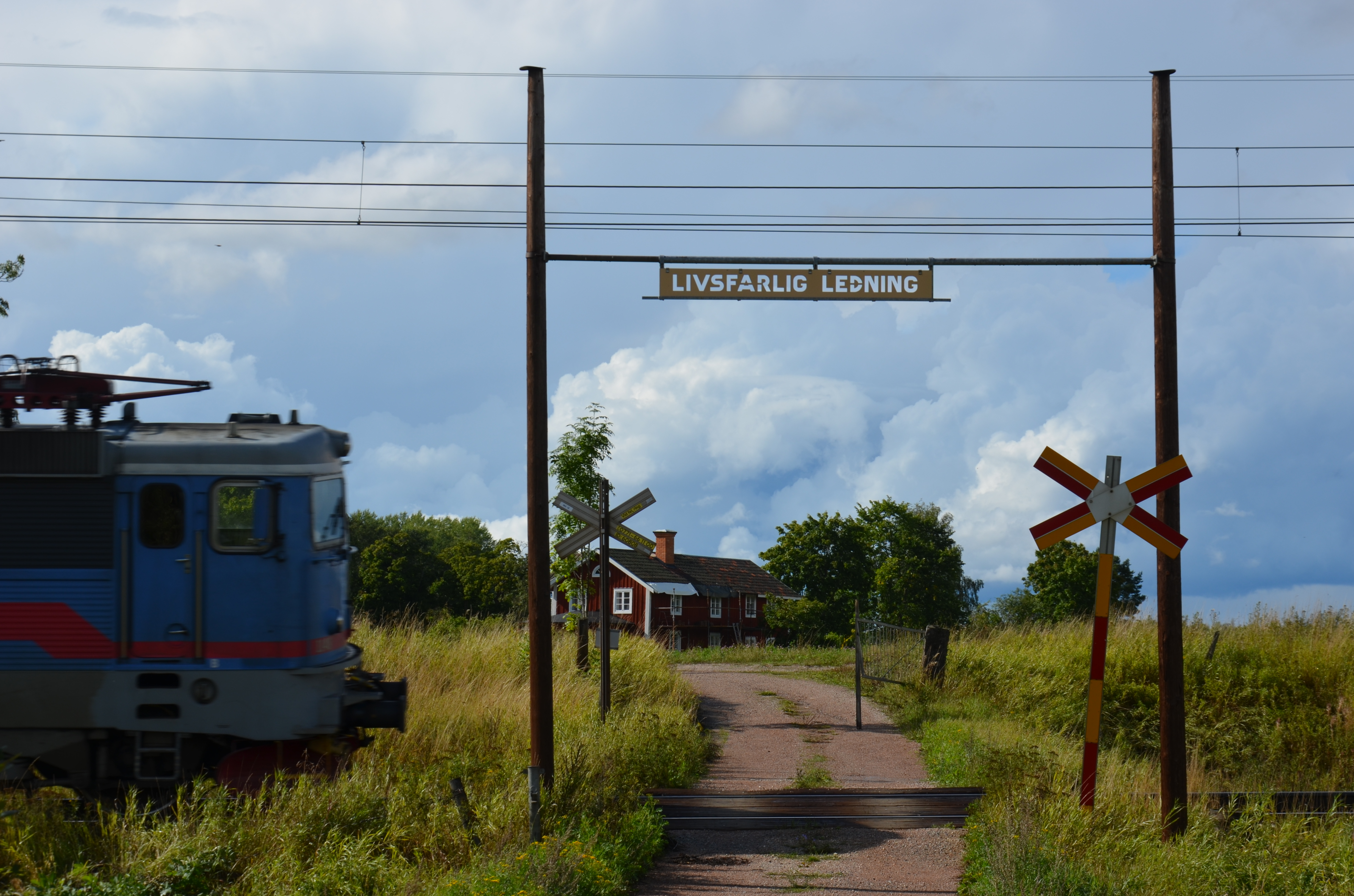 Godstågslok vid järnvägskorsningen på Godsstråket genom Bergslagen i Snytsbo